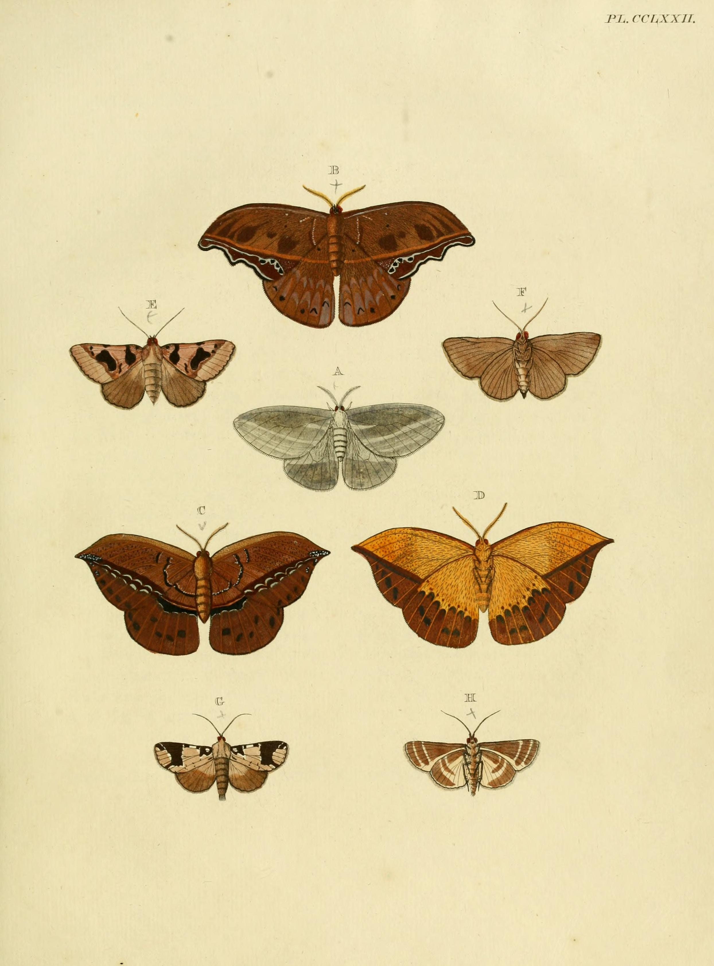 Plate CCLXXII A: "(Phalaena) Regina" ( = Caviria regina (Cramer, [1775]), iconotype?), see Funet. Photos at Barcode of Life. B: "(Phalaena) Mirabilis" ( = Draconipteris mirabilis (Cramer, [1780]), iconotype?), see Funet. C, D: "(Phalaena) Modestia" ( = Oxytenis modestia Cramer, [1780]), see Funet. Photos at Barcode of Life. E, F: "(Phalaena) Adjutrix" ( = Athyrma adjutrix (Cramer, [1780]), iconotype?), see Funet. Photos at Barcode of Life. G, H: "(Papilio) Epopea" ( = Condica cupentia (Cramer, [1779])), see Funet. Photos at Barcode of Life. Also on plate 252 E as "(Phalaena) Cupentia".